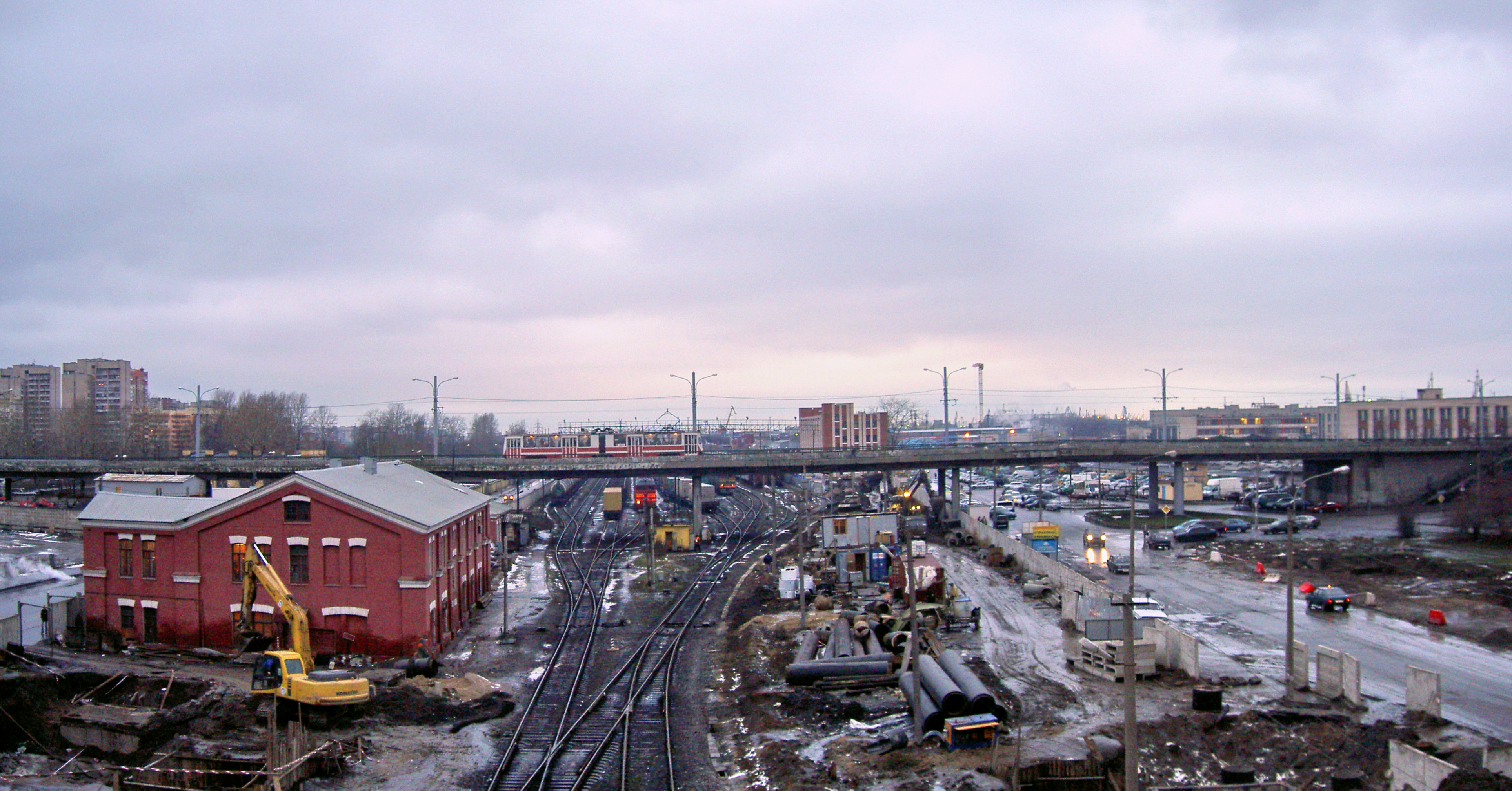 Tram viaduct at Avtovo